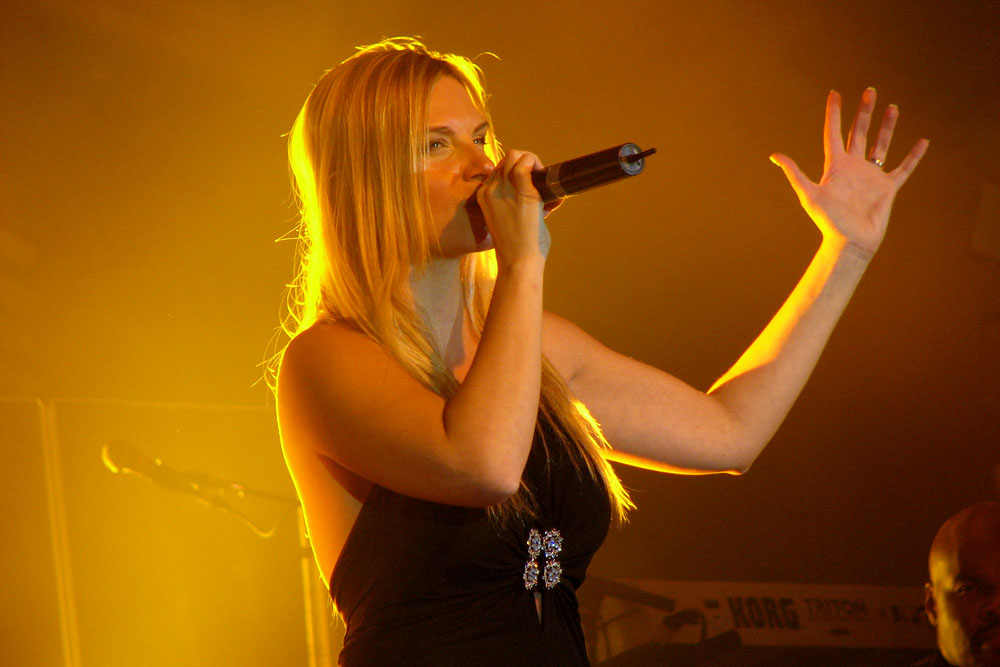 Jennifer Cella Trans-Siberian Orchestra